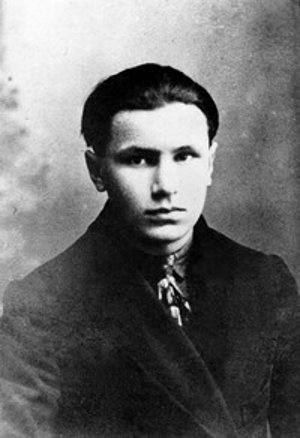 Boris Yulianovich Poplavsky